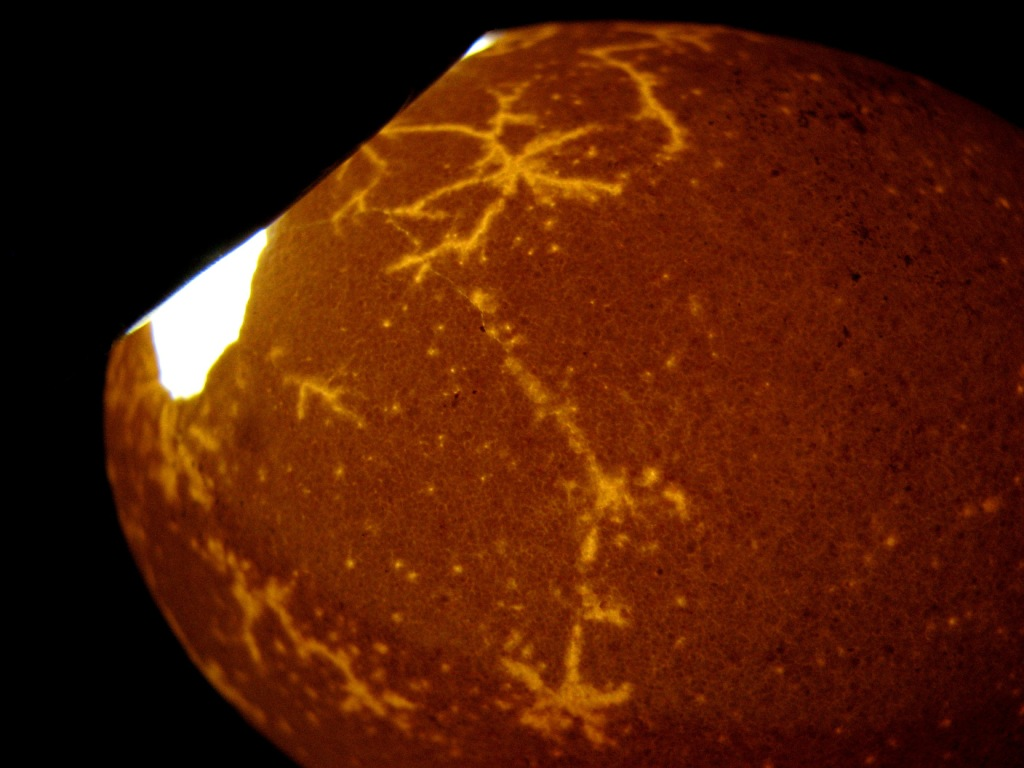 An egg shell with light from a torch shining through it